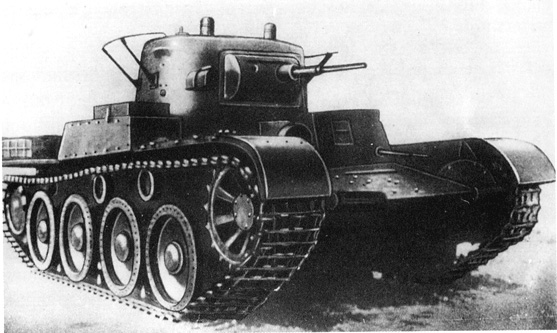 It represented an attempt to blend the combat abilities of the T-26 light tank and the BT fast wheel/track tank into an unified tank technology for the Red Army.